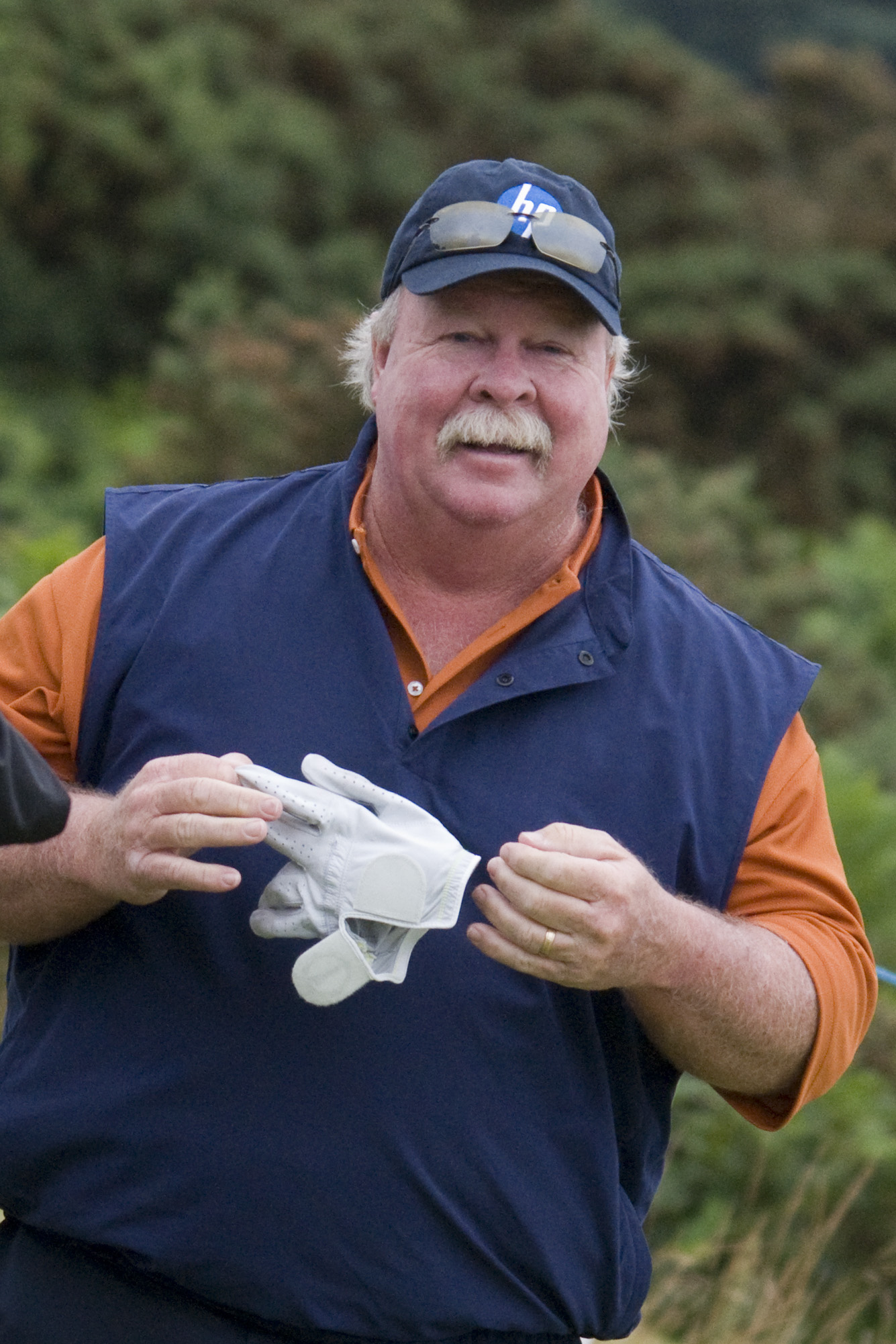 Seniors British Open Golf 2011 Craig Stadler